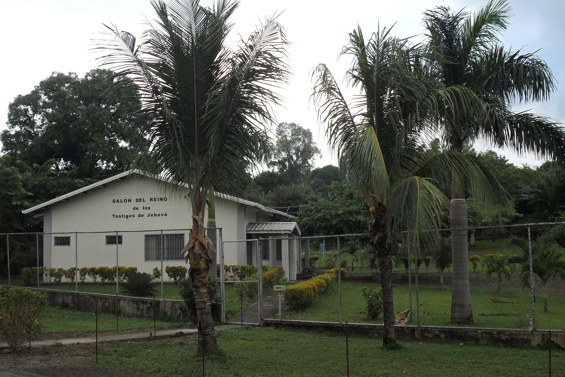 Jehovah's Witnesses Kingdom Hall in Omotepe, Nicaragua